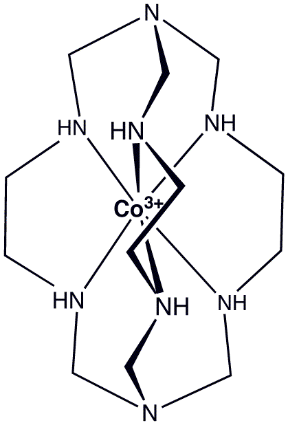 chemical structure of clathrate, better emphasizing oct geo